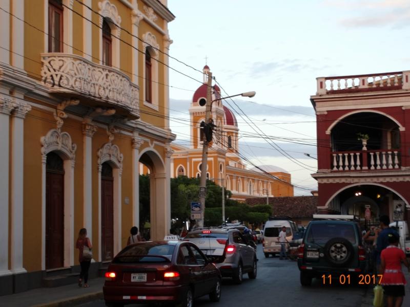 Calle Real Xalteva